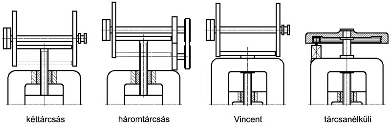 Types of friction presses